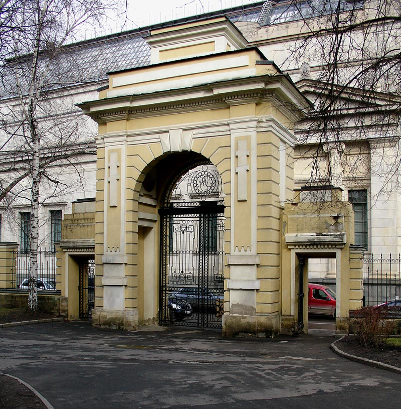 Golitsyn Estate Gates, Moscow, Maly Znamensky lane (background: Pushkin Museum on Volkhonka)